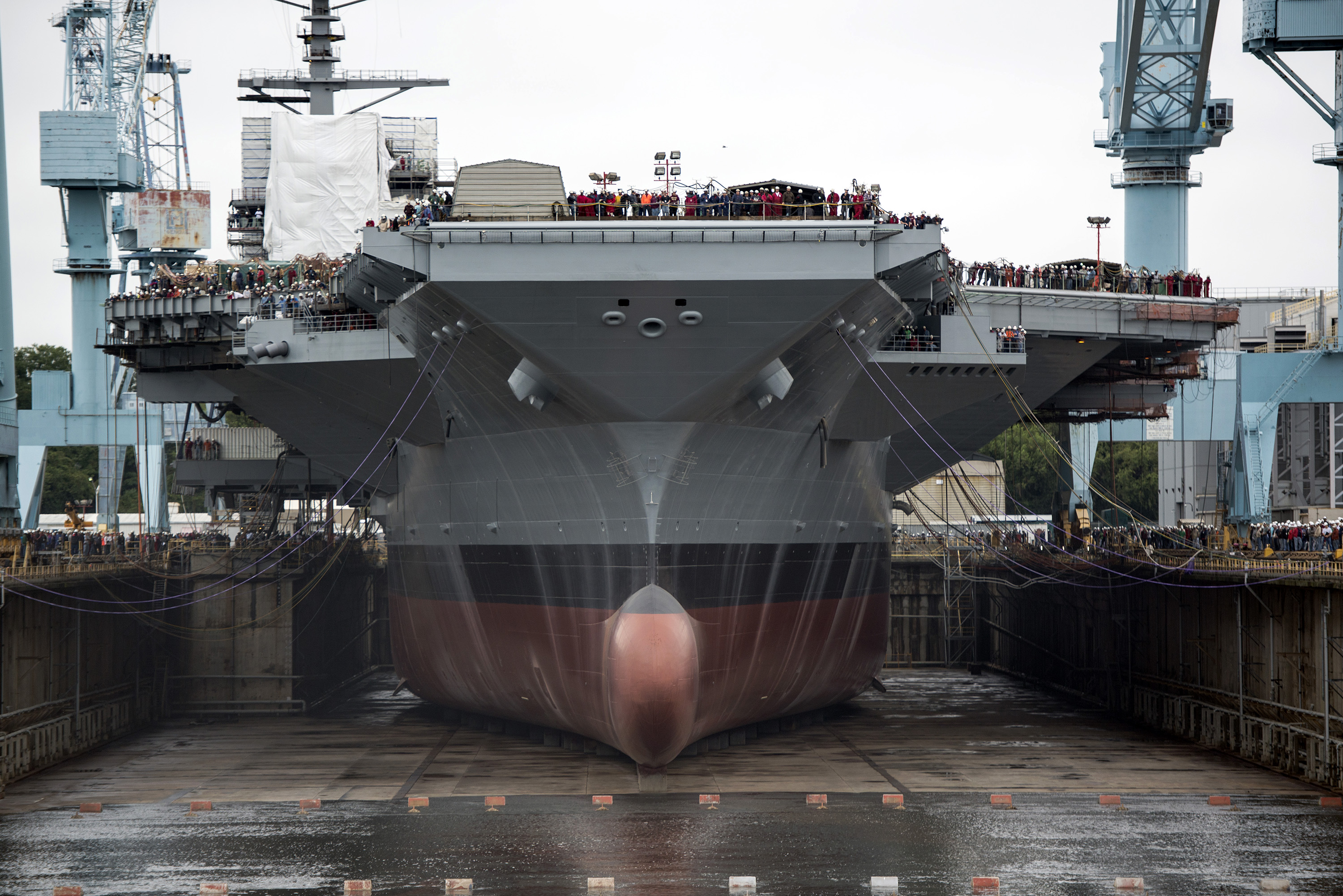 Newport News Shipbuilding begins flooding Dry Dock 12 to float the aircraft carrier USS Gerald R. Ford (CVN-78).